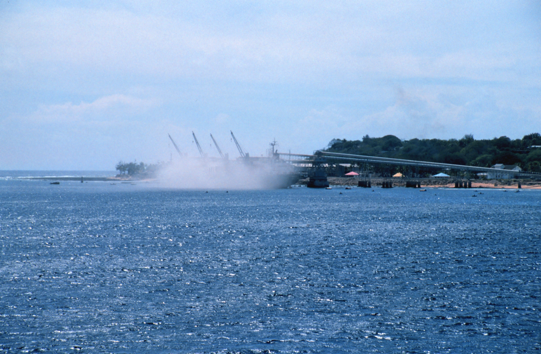 A view of filling a bulk carrier ship with phosphate at the piers at Nauru as seen from the NOAA Ship RONALD H. BROWN.